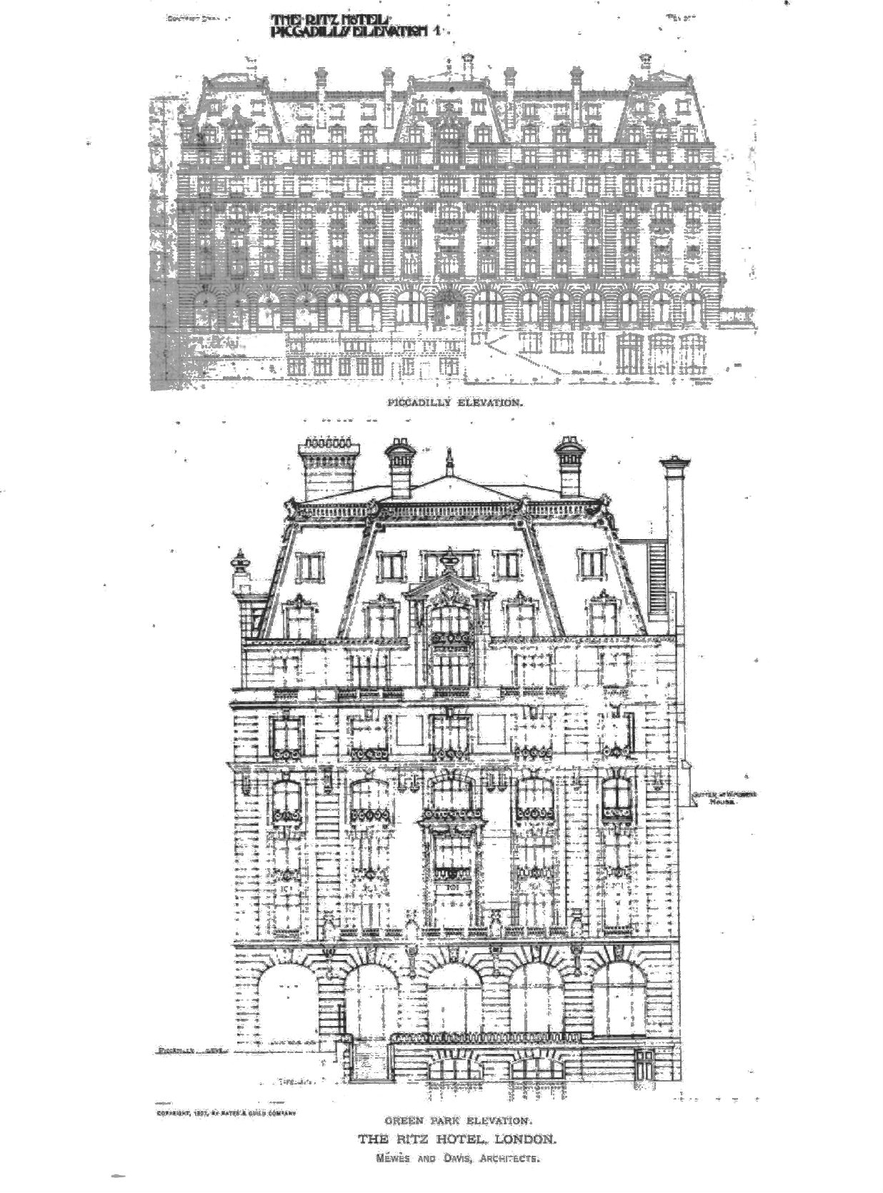 Elevation illustrations of the Ritz, London, from the Piccadilly and Green Park sides.